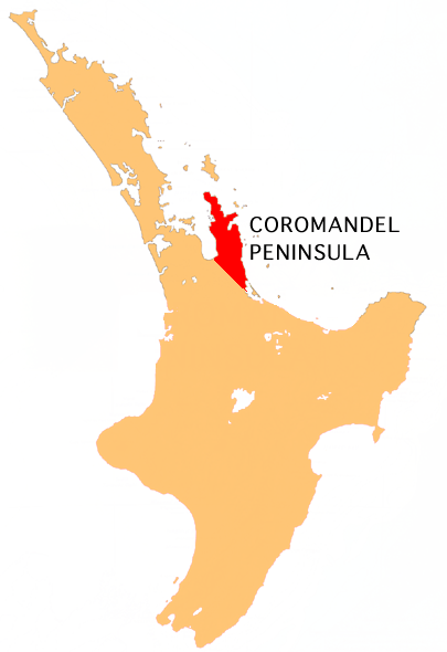 Cormorandel peninsula, North Island, New Zealand